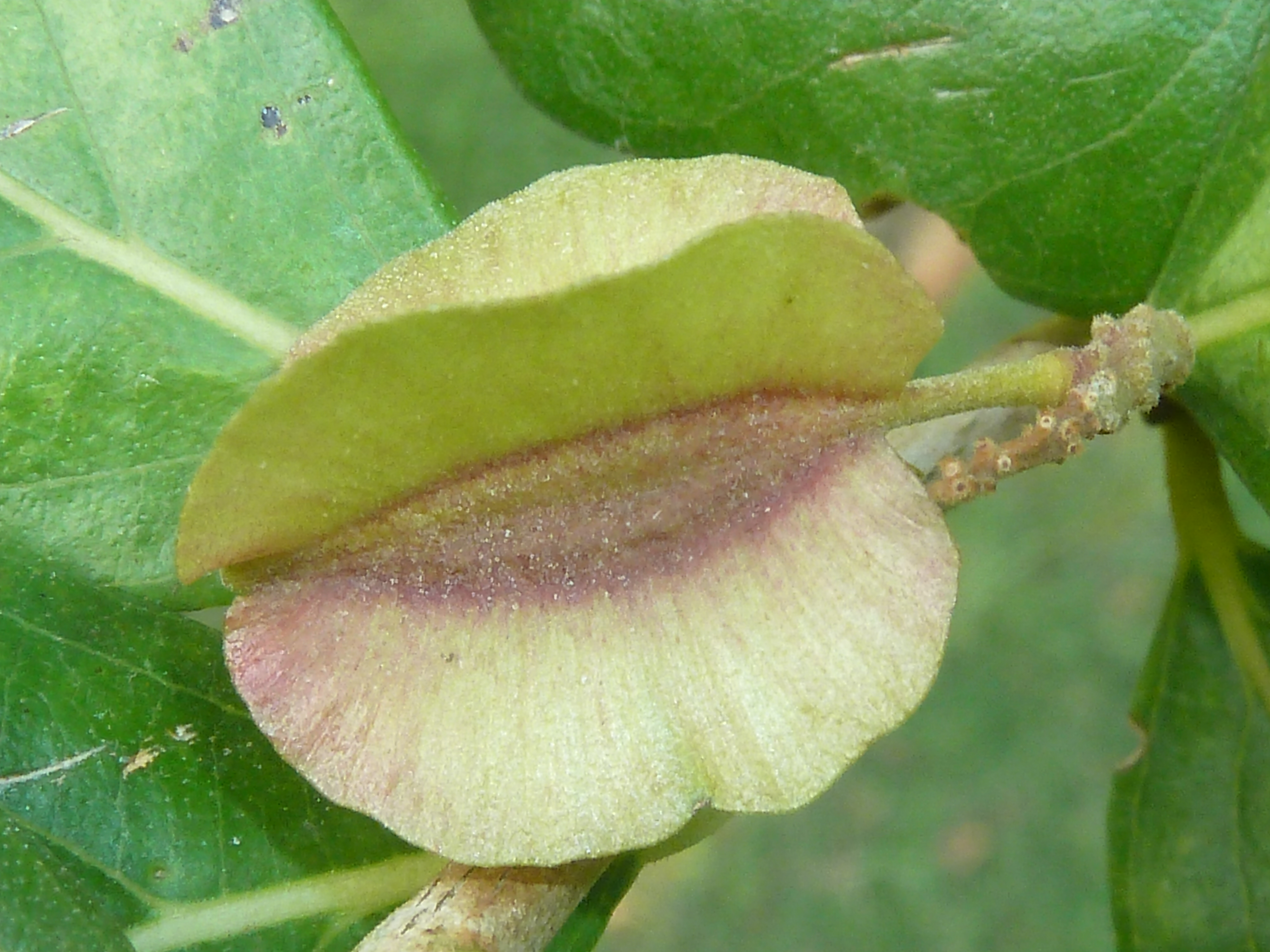 Fruit of Forest bushwillow at the Wingate Park country club in Pretoria